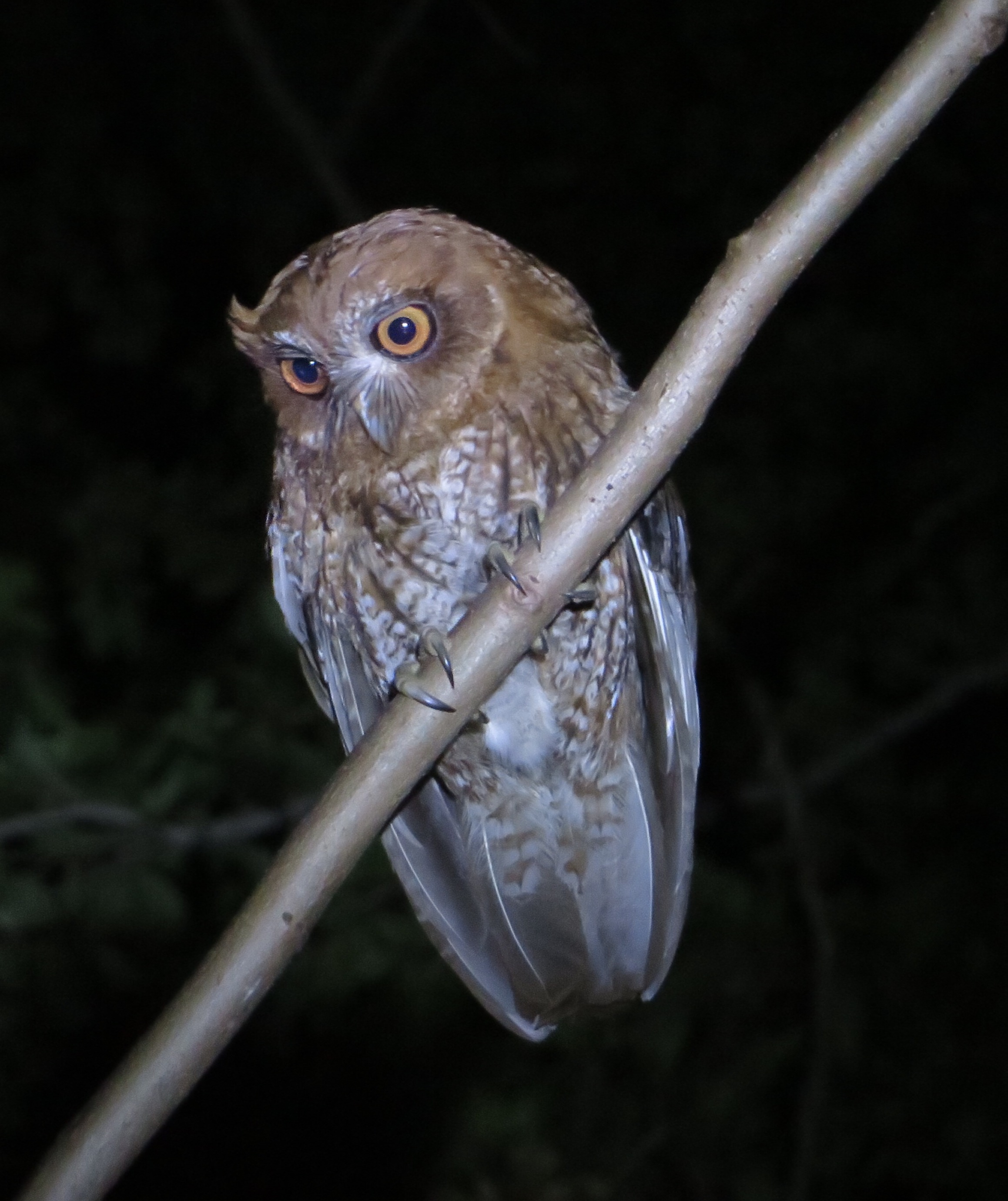 Puerto Rican screech owl pictured at night in his natural habitat on the branch of Delonix regia.